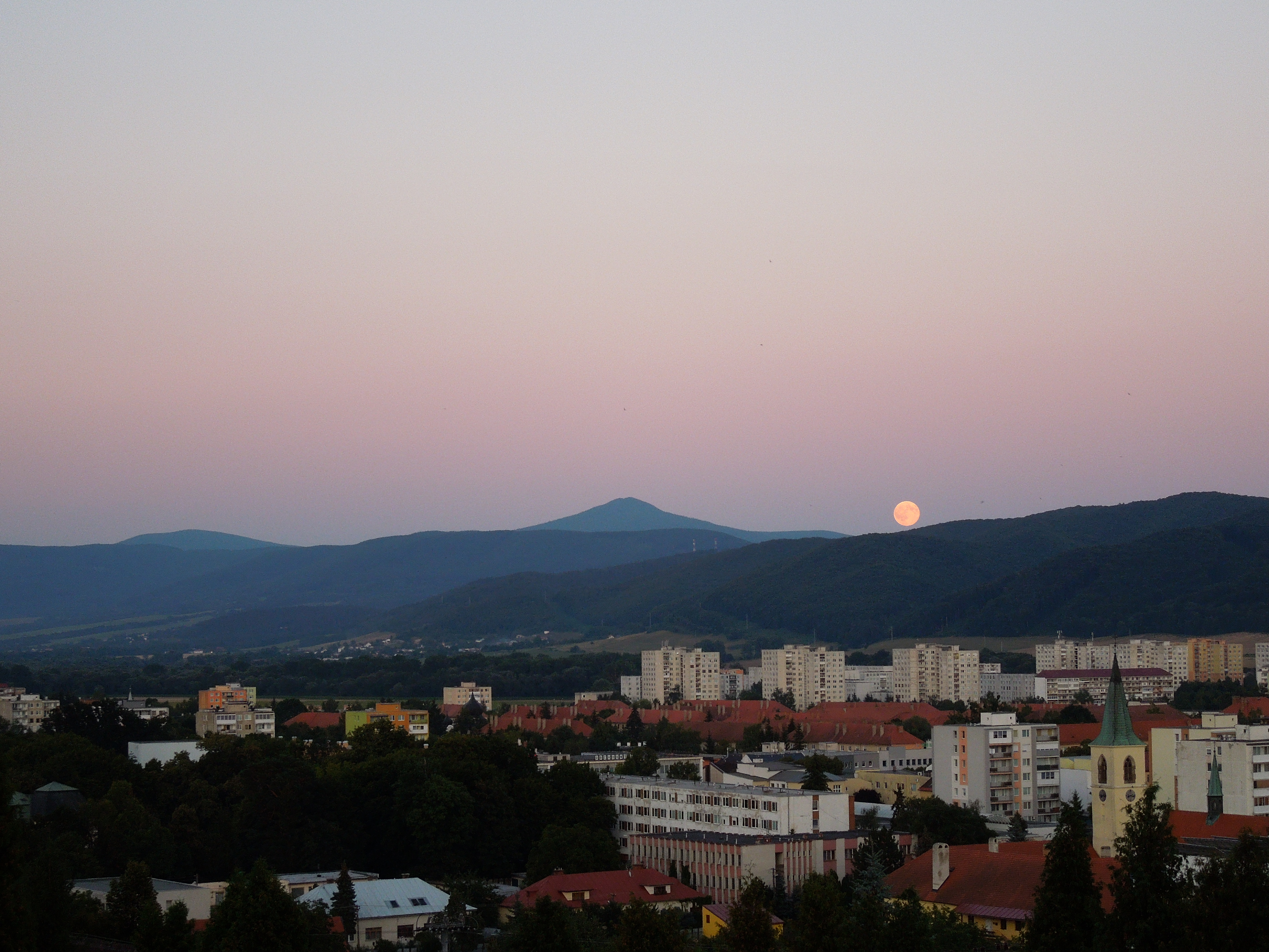 View of the night Vihorlat (in the middle) from town Humenné